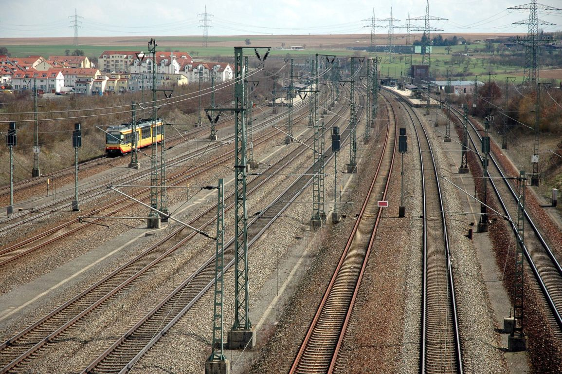 new station of Vaihingen (Enz) with direction east. On the left a S5 tram train with direction Mühlacker.